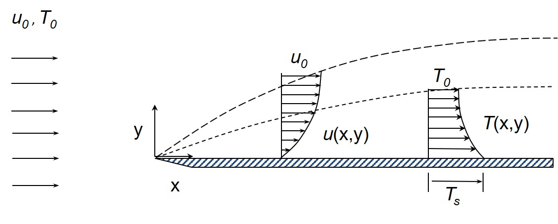 Schematic drawing depicting heated fluid flow over a flat plate. A thermal and a velocity boundary layer are formed as the fluid moves along the plate. This picture depicts the two boundary layers along a heated plate.